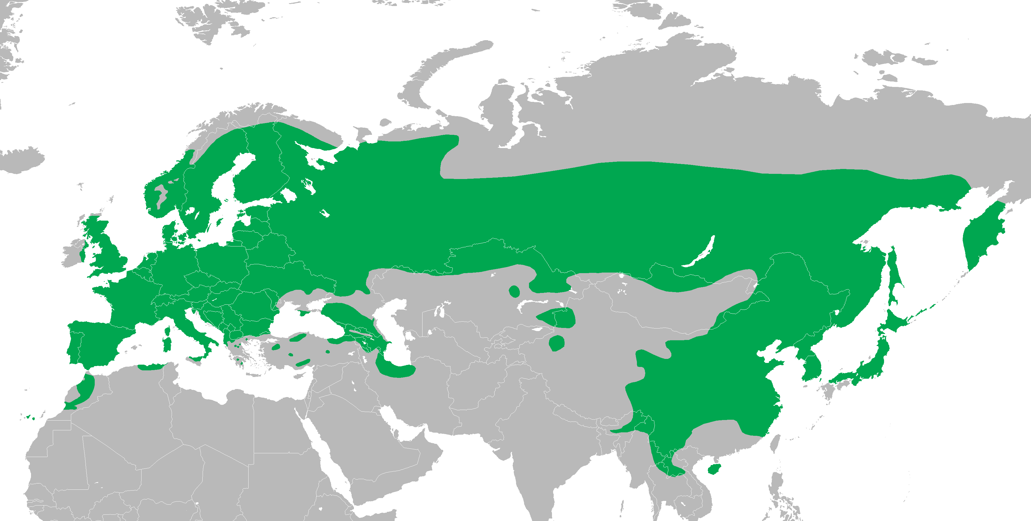 Great Spotted Woodpecker (Dendrocopos major) distribution map. Data is consistent with IUCN Redlist map and Great Spotted Woodpecker (Dendrocopos major). Handbook of the Birds of the World Alive. Lynx Edicions (2013). Retrieved on 11 February 2017.